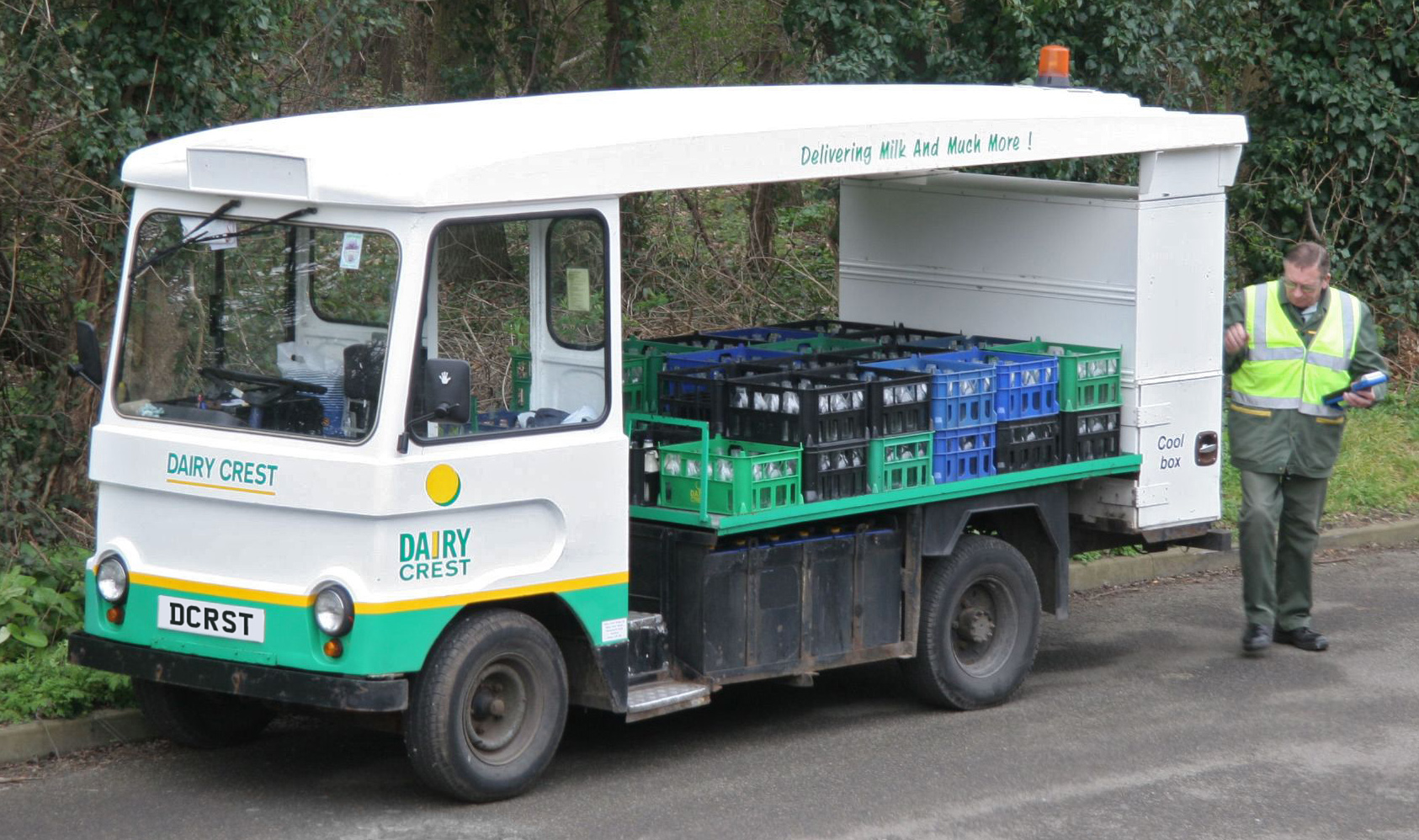 Dairy Crest milk float (1980-81 registration plate removed for reasons of anonymity). Cropped version of another image.